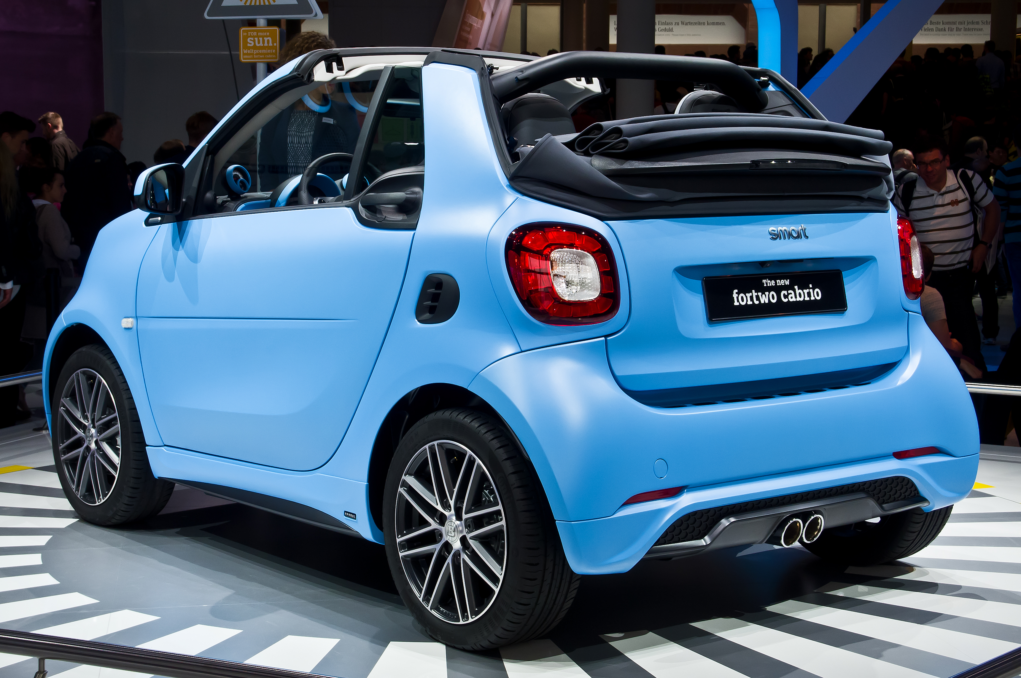 Smart Brabus Fortwo Cabrio (A 453)